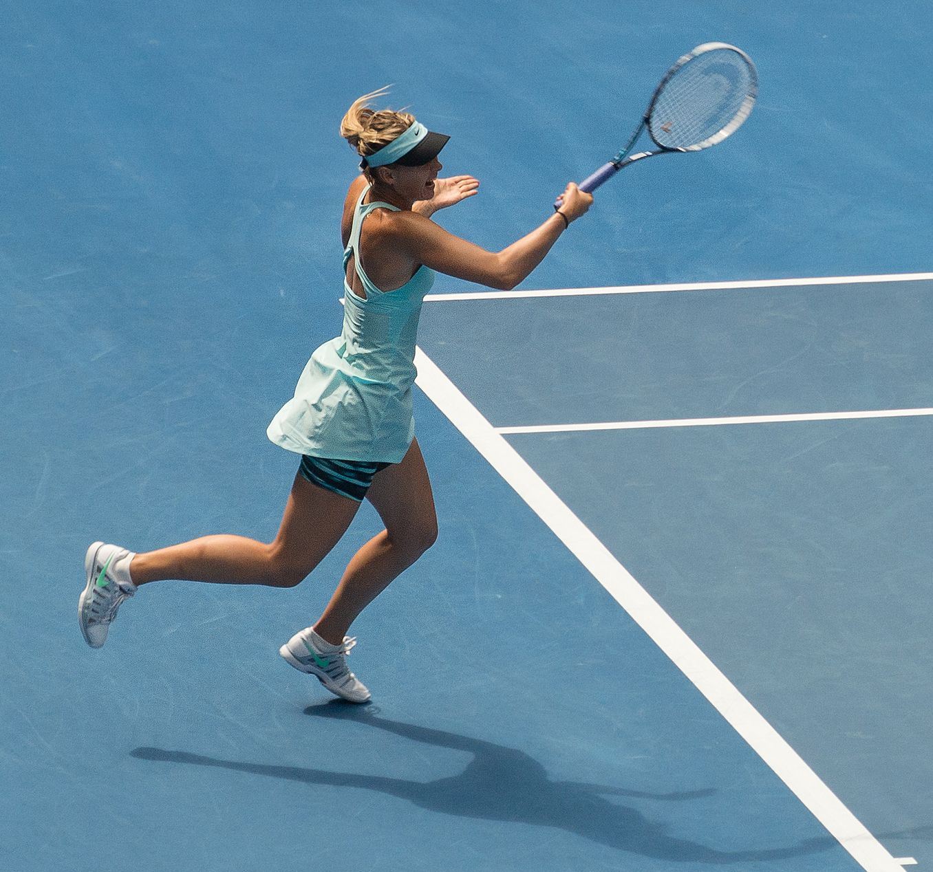 Marija Šarapova at Australian Open 2014